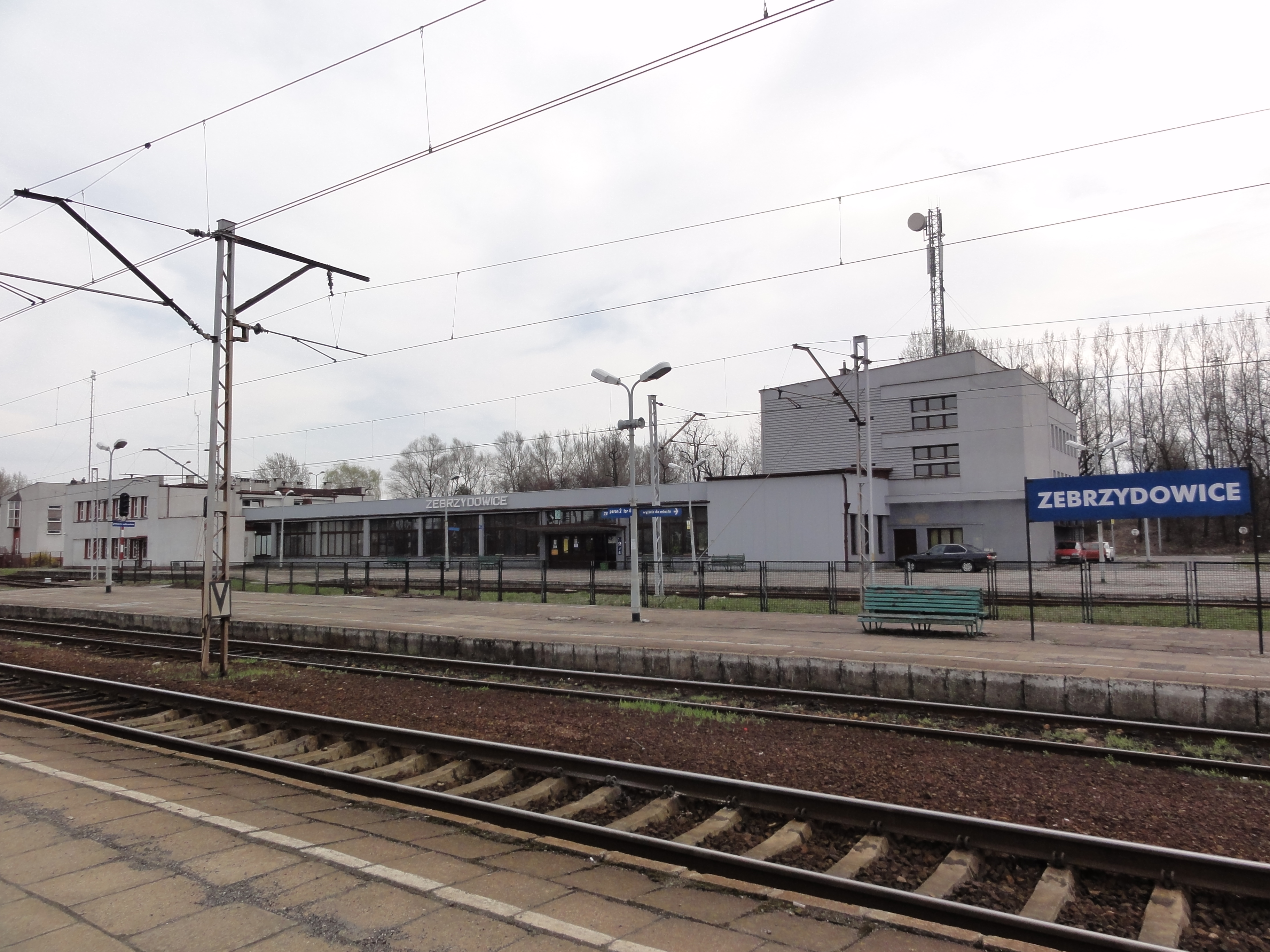 Train station in Zebrzydowice